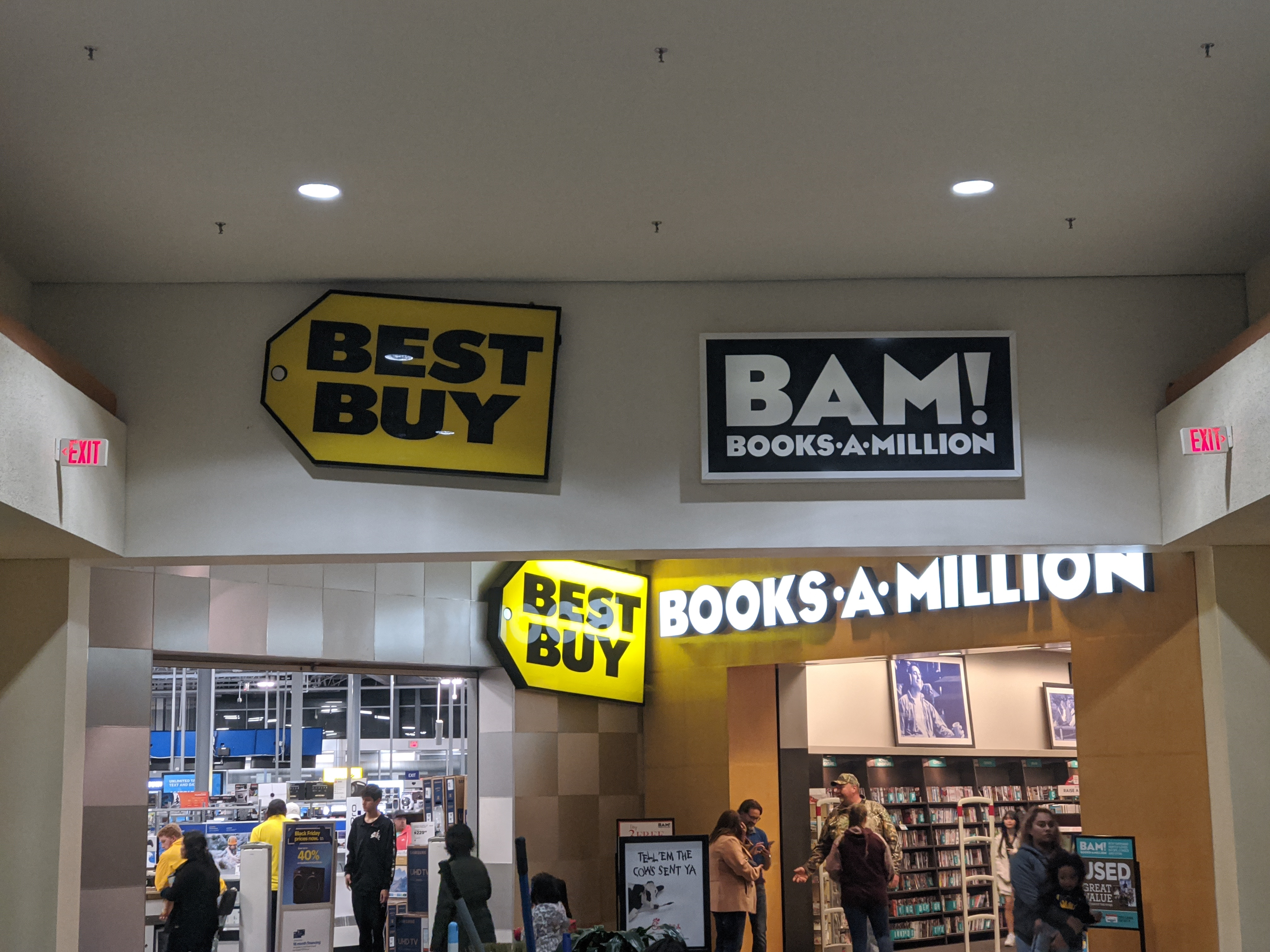 Subdivided Dunlaps